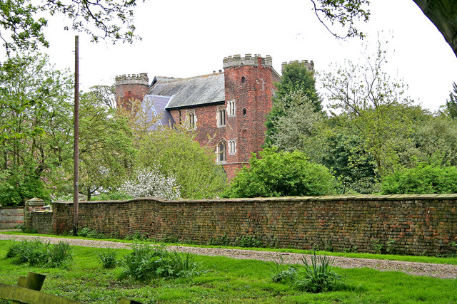 Watton Abbey, Watton, East Riding of Yorkshire, England.